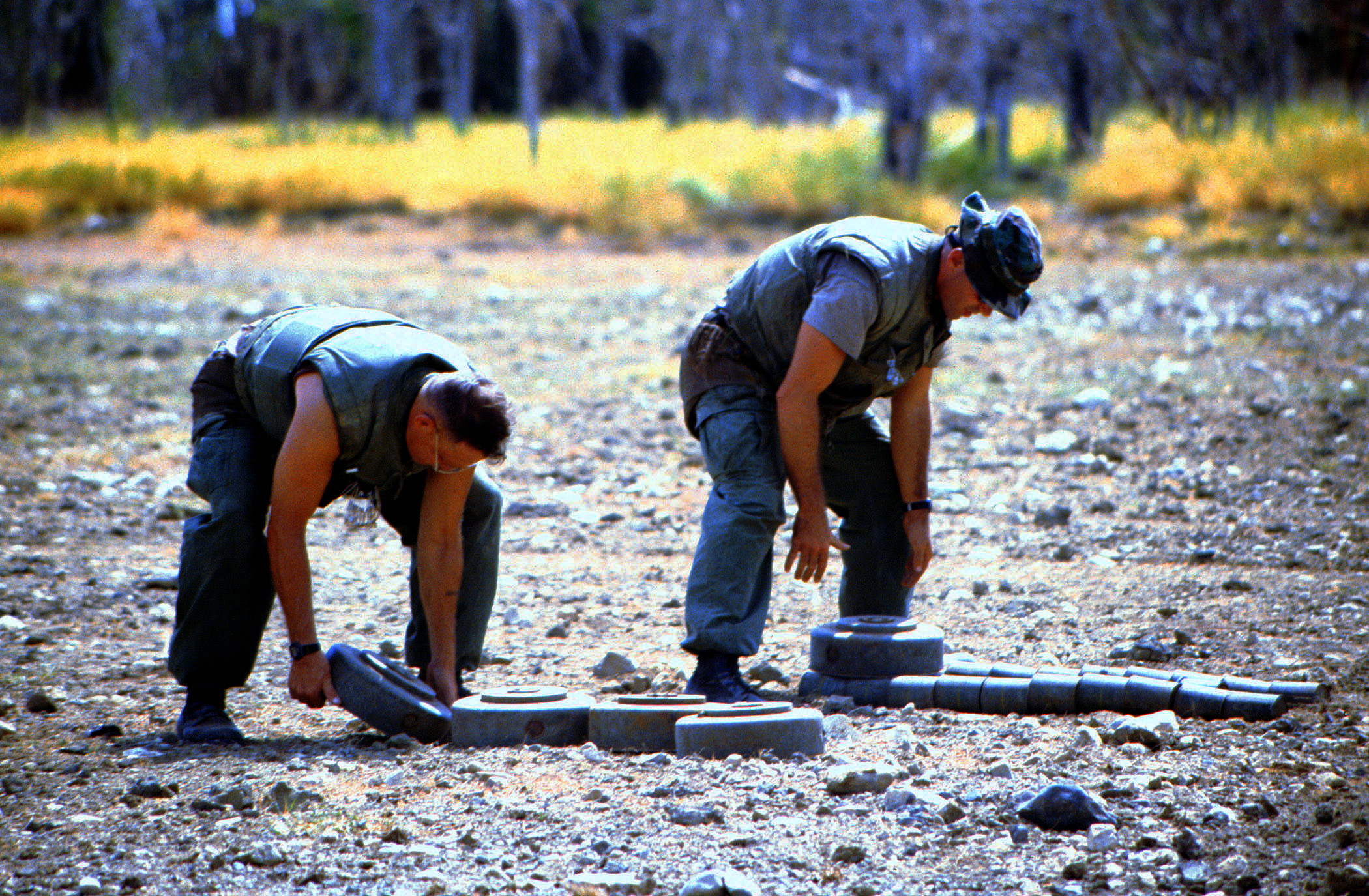 Minefield maintenance Marines stack mines for disposal. Naval Station Guantanamo Bay, Cuba, is clearing its minefields of outdated mines in accordance with President William Jefferson Clinton's directive.